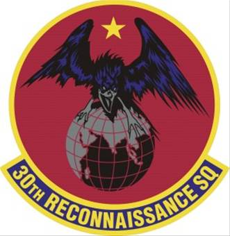 30th Reconnaissance Squadron Patch